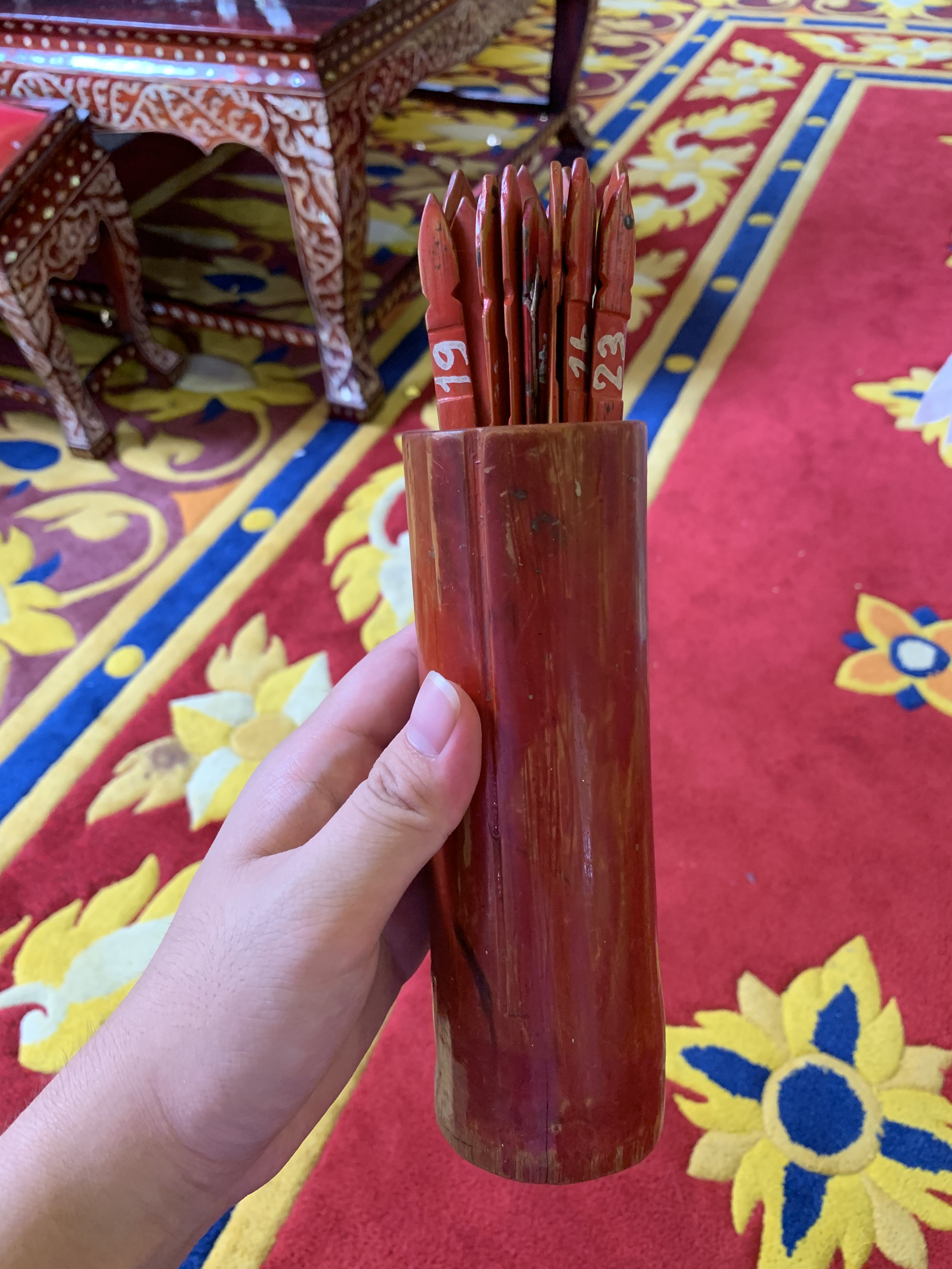 An ordinary Kau chim (Fortune telling) stack at Wat Prasitthiwet, Nakhon Nayok, Thailand